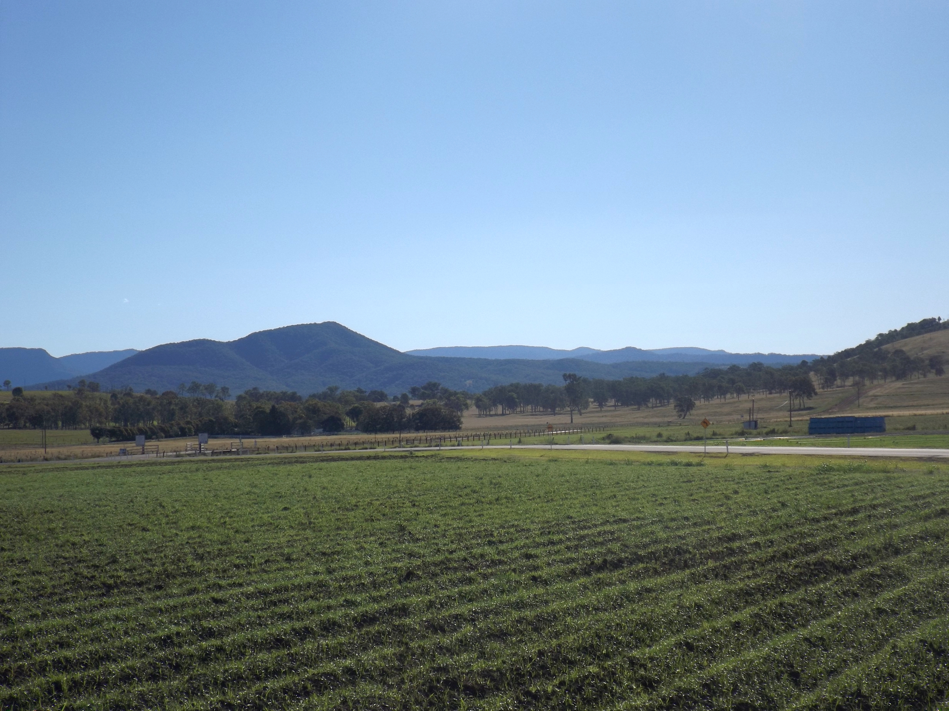 Photo of crops at Frazerview, Scenic Rim Region, Queensland, Australia. Mount Fraser is visible in the left background.